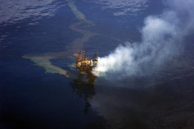 The West Atlas Oil Rig, still leaking